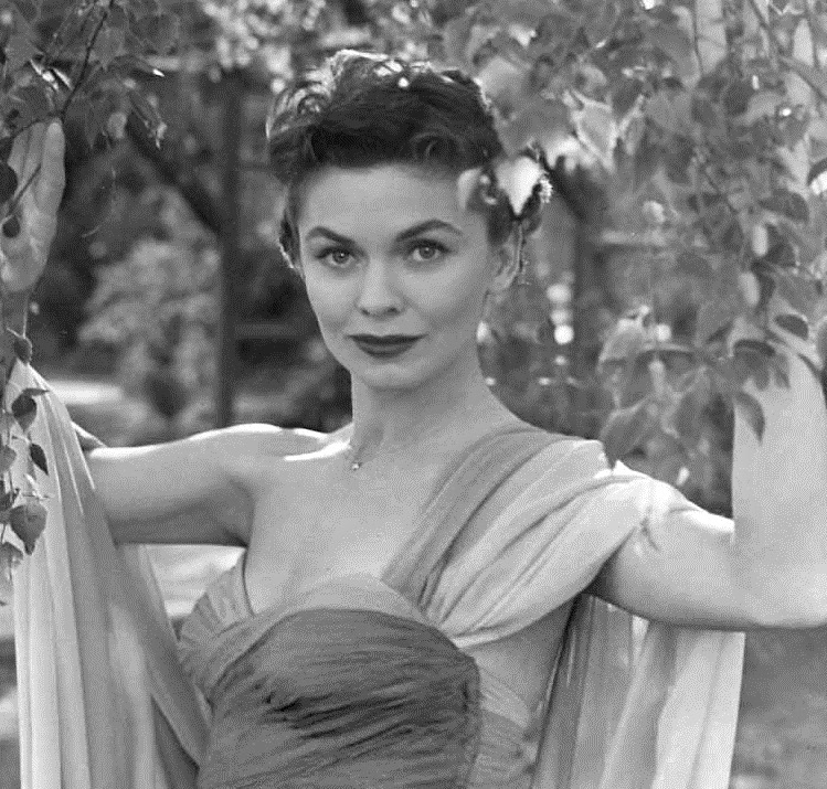 press photo of Joanne Dru